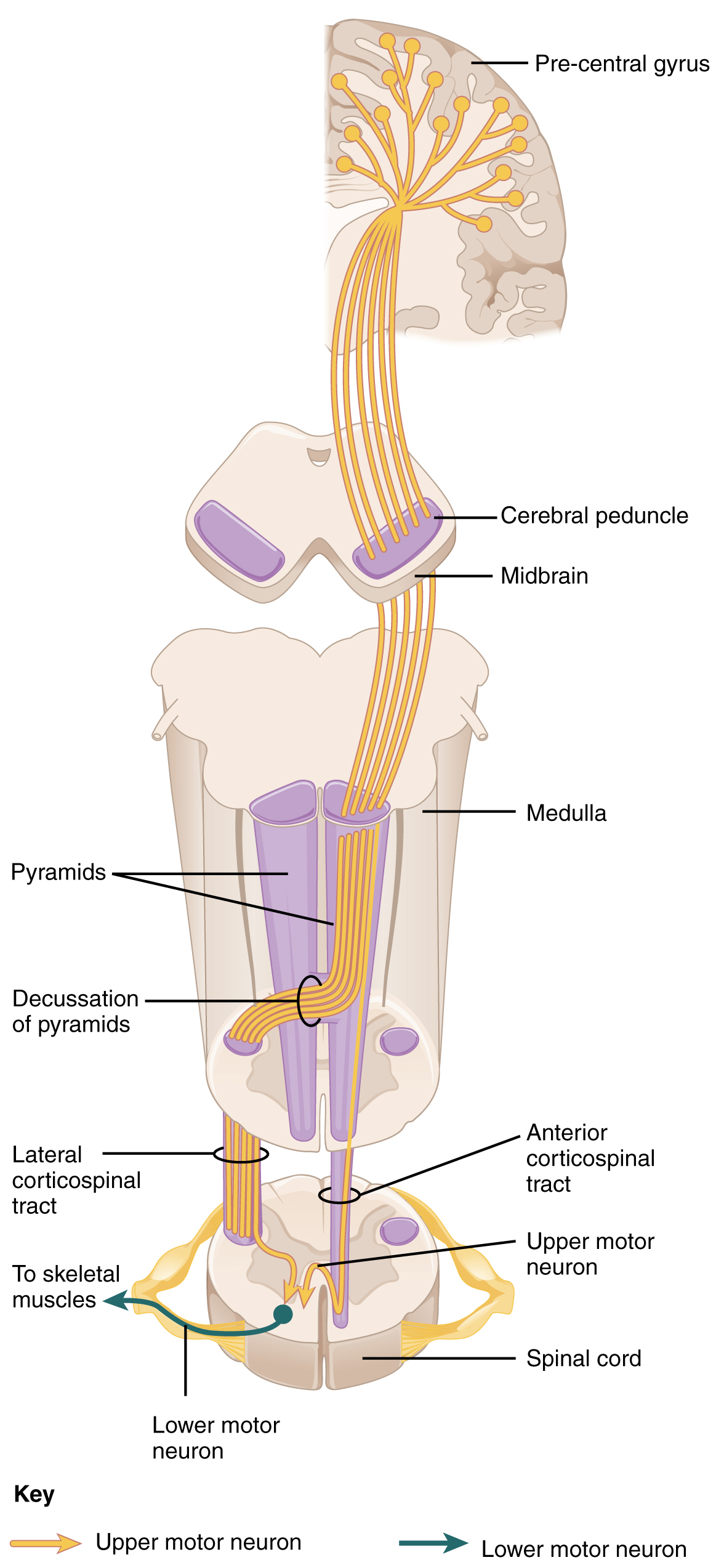 Illustration from Anatomy & Physiology, Connexions Web site. Jun 19, 2013.